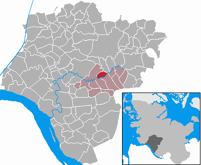 This map shows the area of the municipality Kollmoor in the Kreis (district) Steinburg, Schleswig-Holstein, Germany.